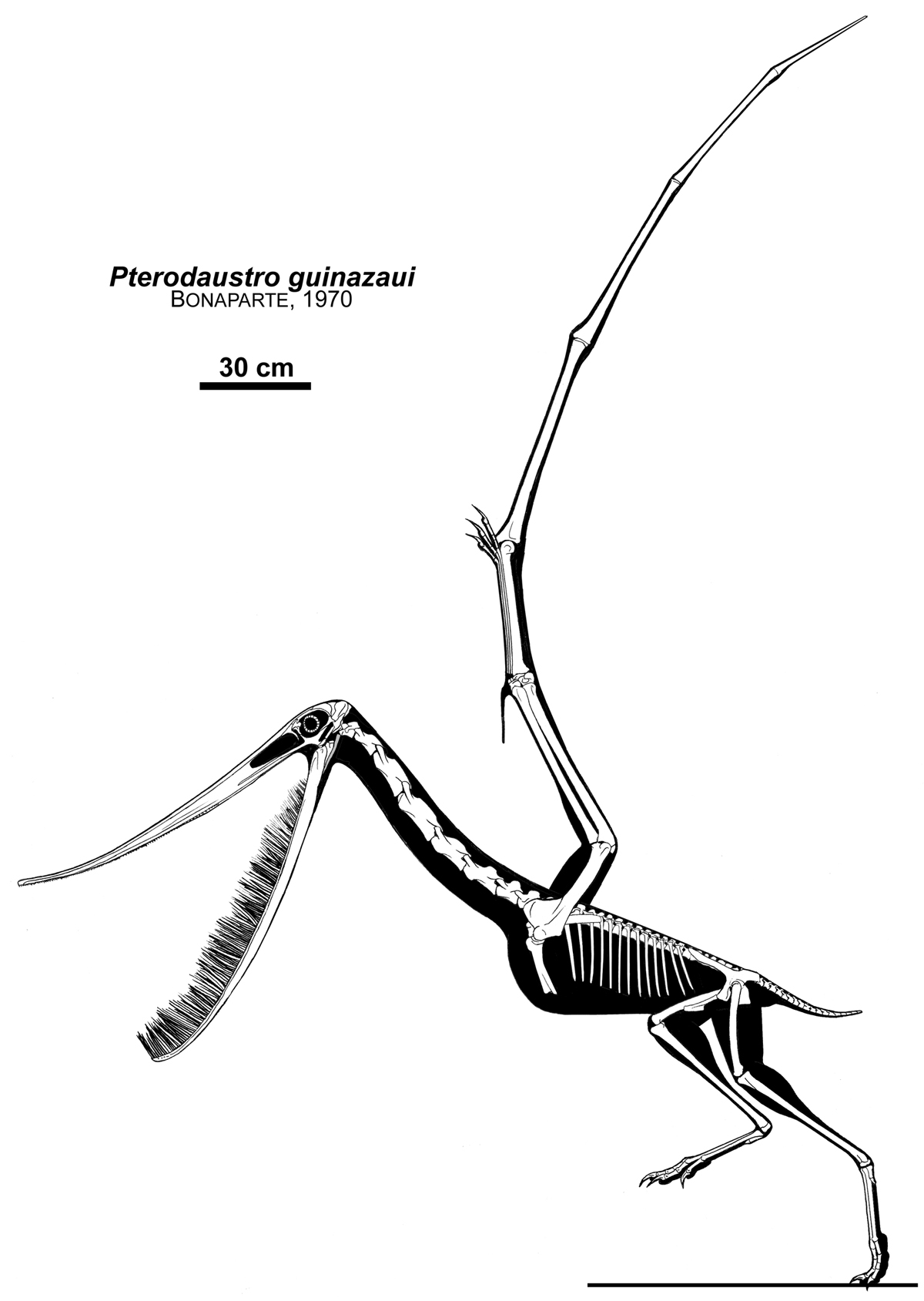 Skeletal reconstruction of Pterodaustro guinazaui.